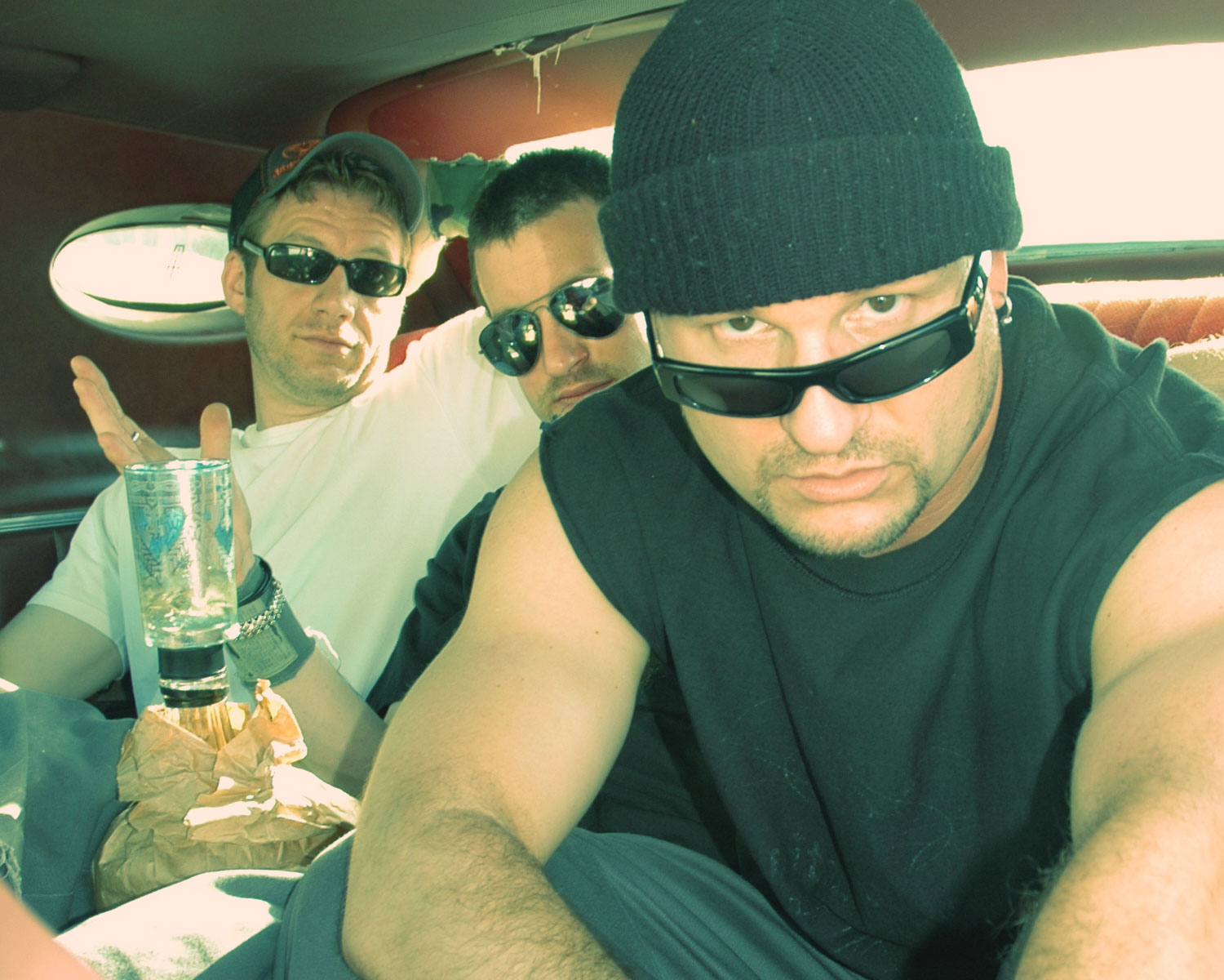 Marc Kaducak, Scott Carneghi, and Brahm Taylor of Buffalocomotive at the residence of American actress/singer Dolores Agnes Fuller in the backseat of her Cadillac